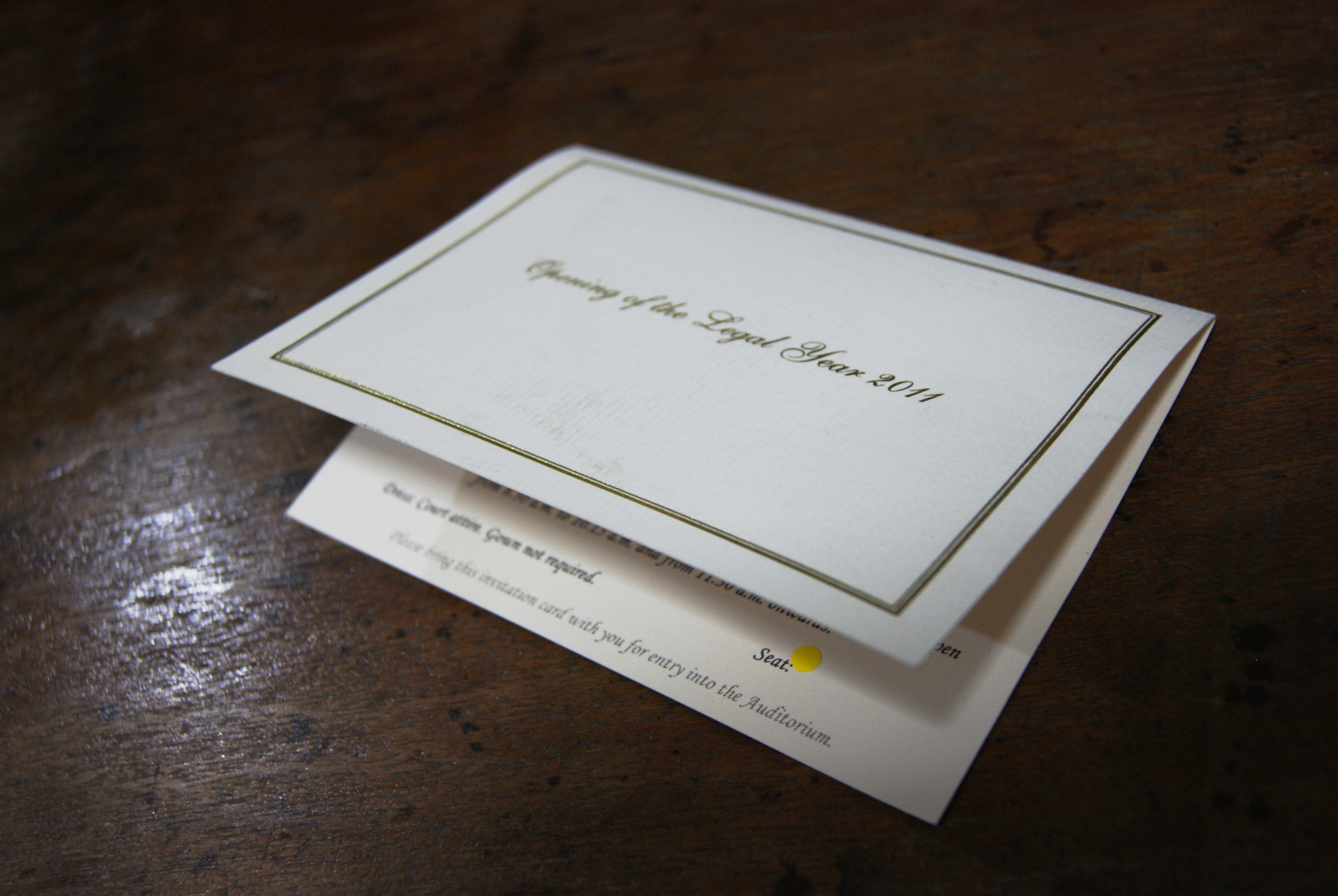 Invitation card to the Opening of the Legal Year 2011 in Singapore held on Friday, 7 January 2011, in the Supreme Court auditorium.